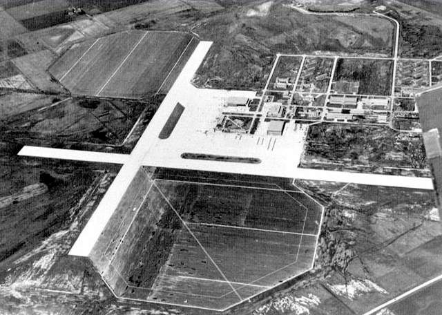 Aerial view of NAS Ottumwa. Photo taken near Ottumwa, Iowa sometme in the mid-1940s